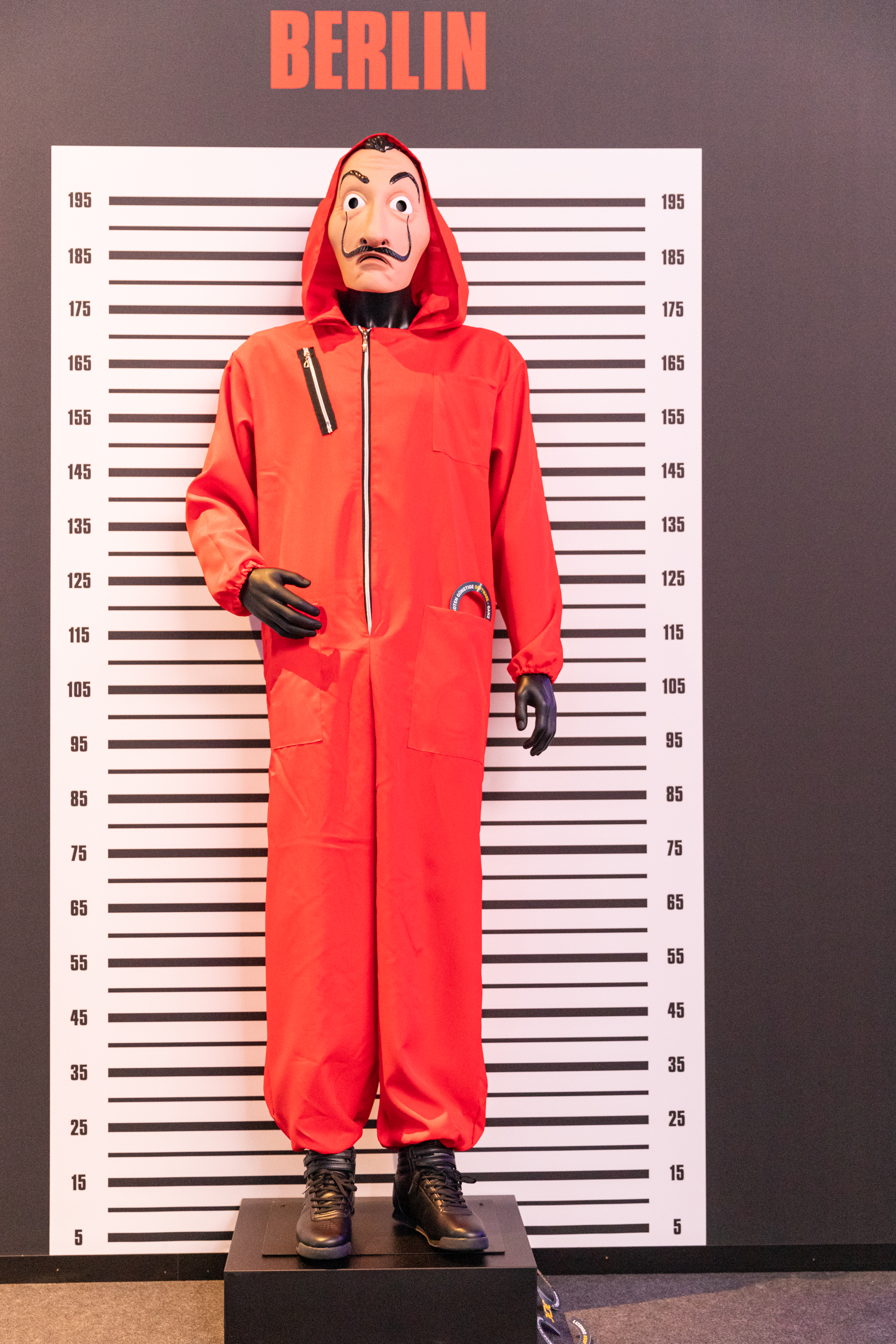 Netflix Germany Money Heist